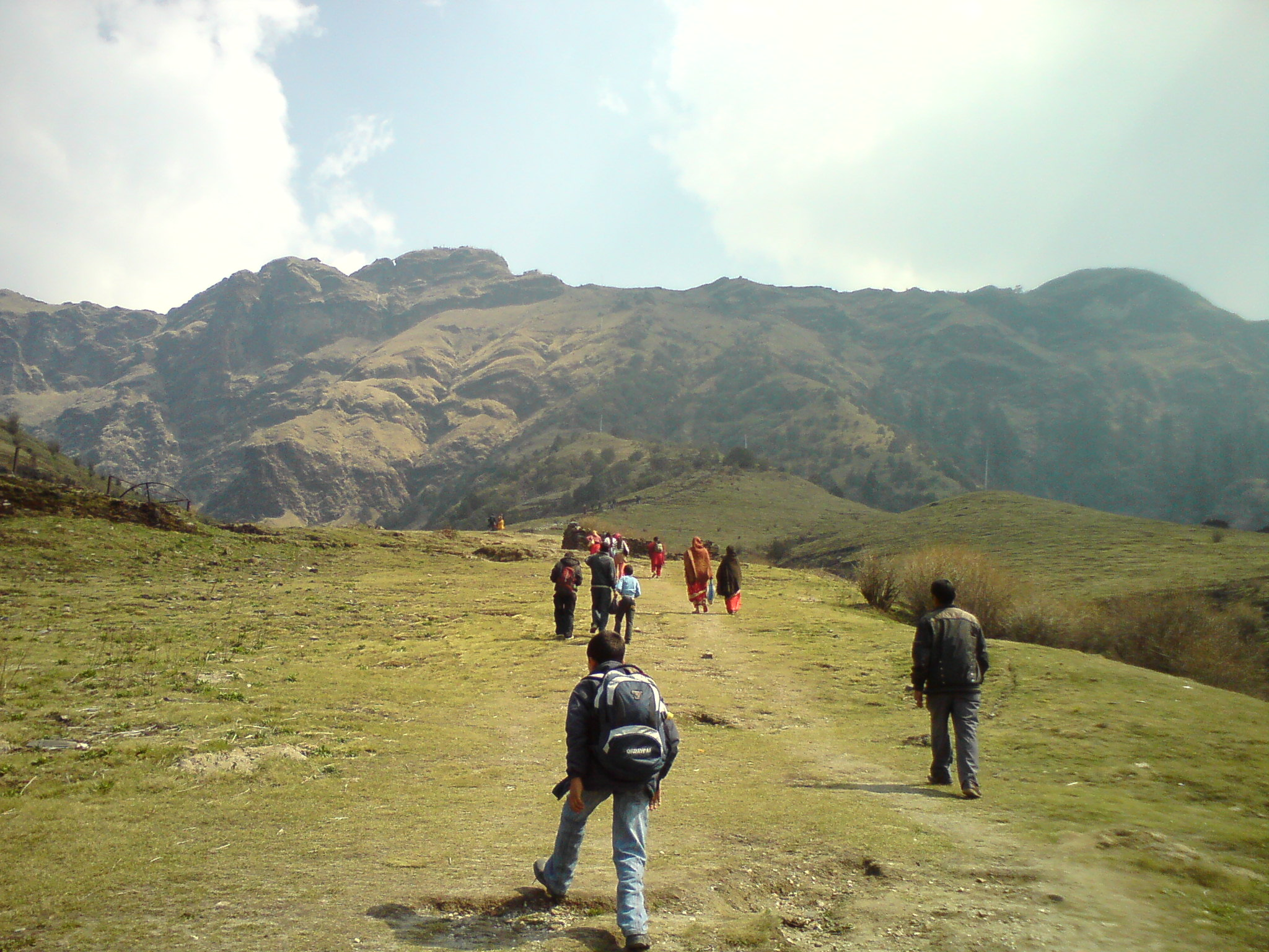 A breathtaking trekking route in Charikot as well as a mojor religious place